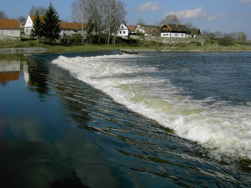 old dam Hnevkovice - the last clasic dam of Vltava river.